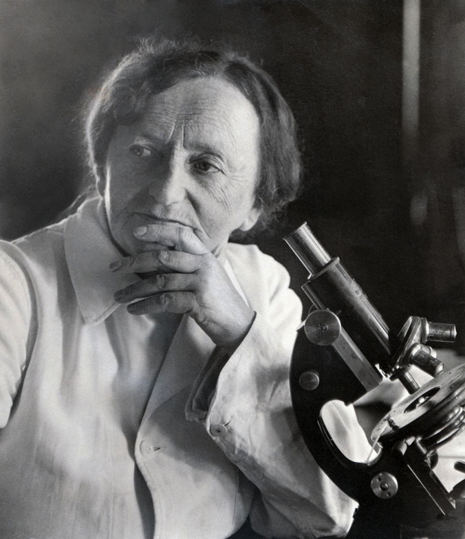 Sofya Getsova